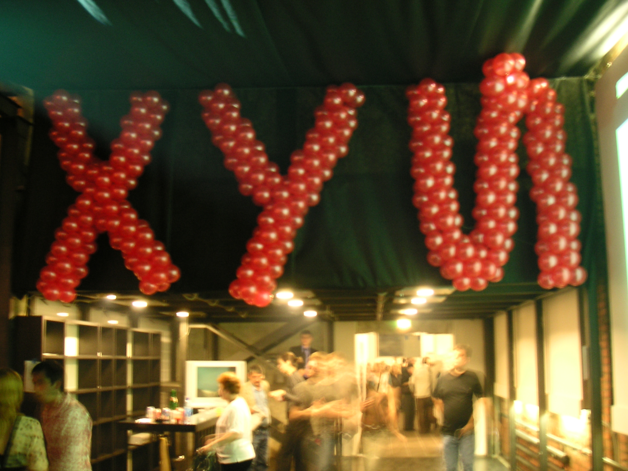 Obscene russian word "хуй" (with last letter deformed like N)